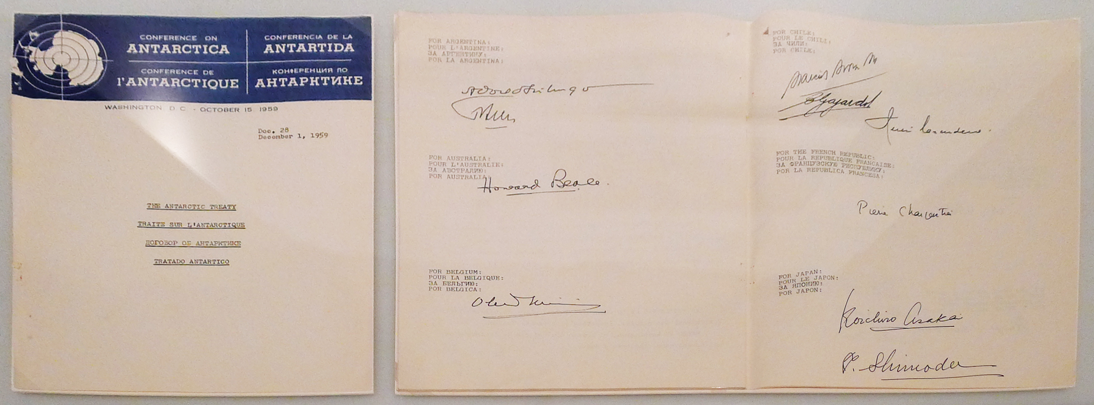 One of the original copy of the Antarctic Treaty. The 12 nations that signed the Antarctic Treaty on December 1959 were Argentina, Australia, Belgium, Chile, France, Japan, New Zealand, Norway, South Africa, the USSR, the United Kingdom and the United States of America. This document is an Australian Archive document which fall within the open access period, and is now publicly available. This picture was taken in the Tasmanian Museum & Art Gallery (Hobart)